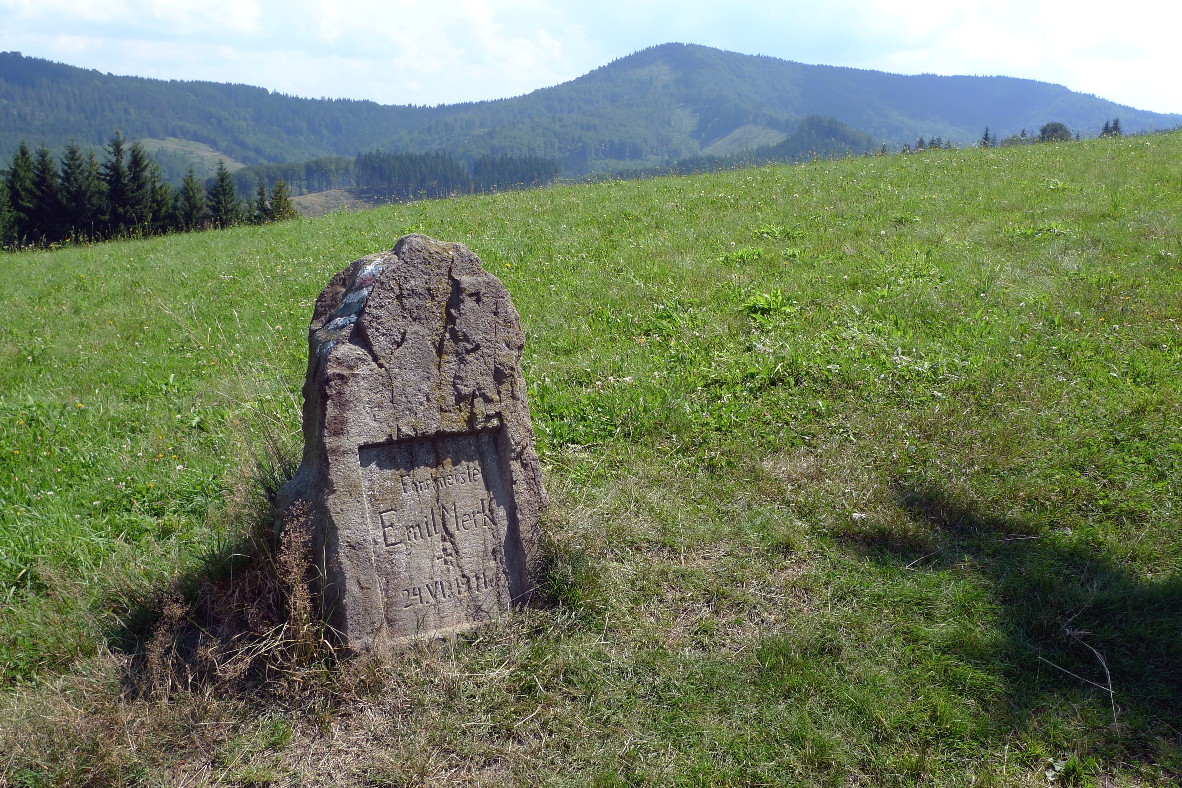 Memorial stone at Filipka hill, Silesian Beskids, Czech Republic